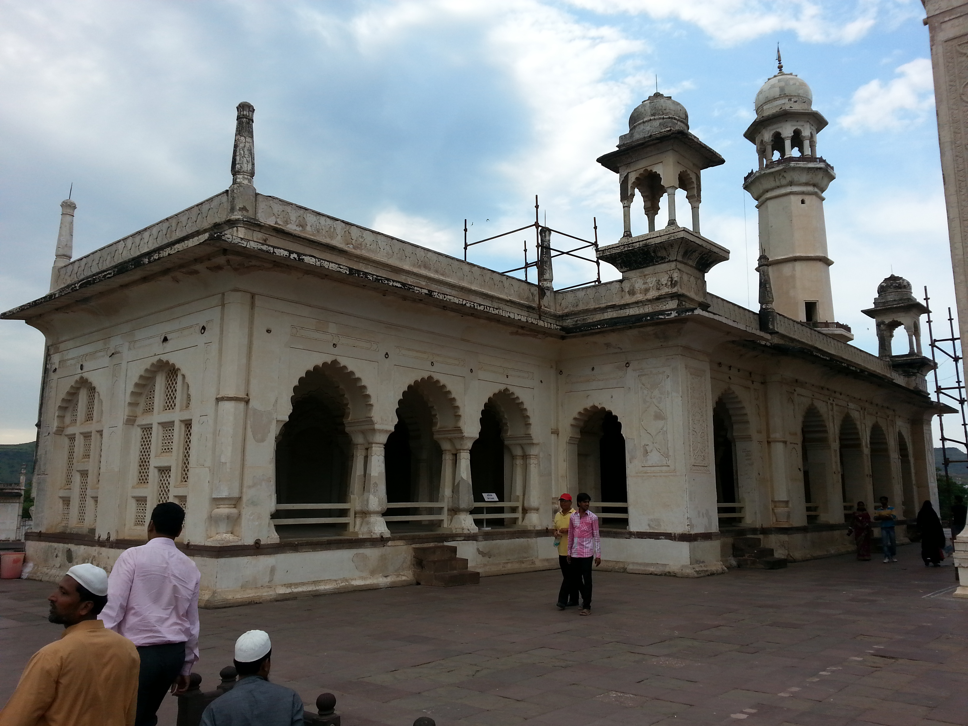 Side view of Mosque at Bibi Ka Maqbara.